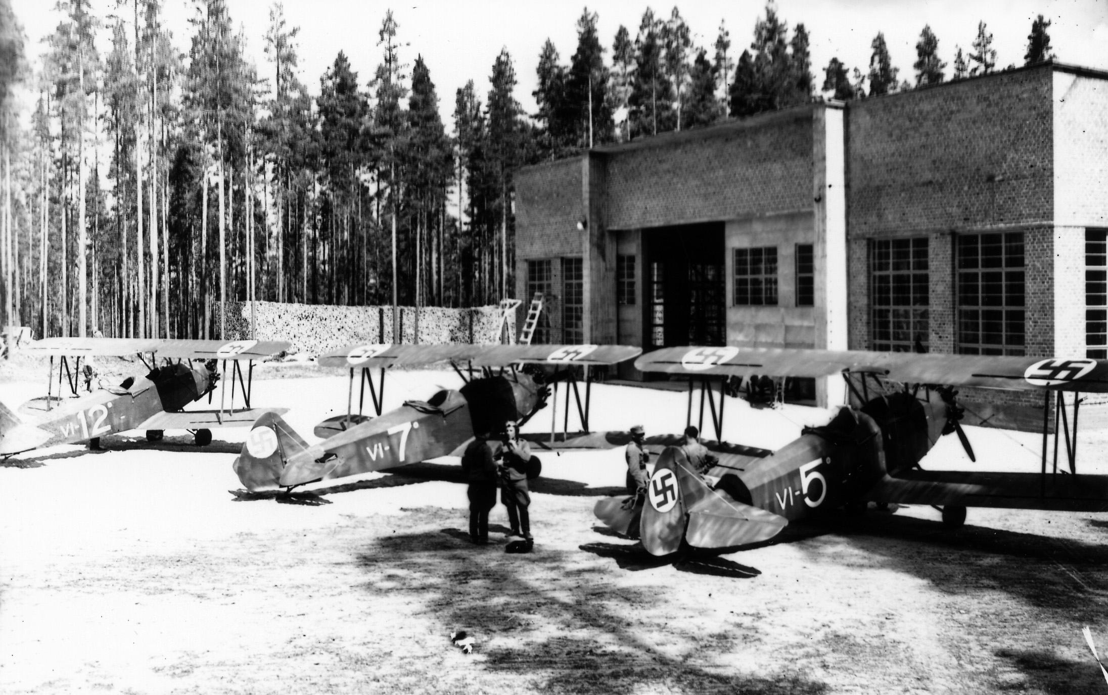 First planes repaired at Karhumäki brothers' factory in Kuorevesi